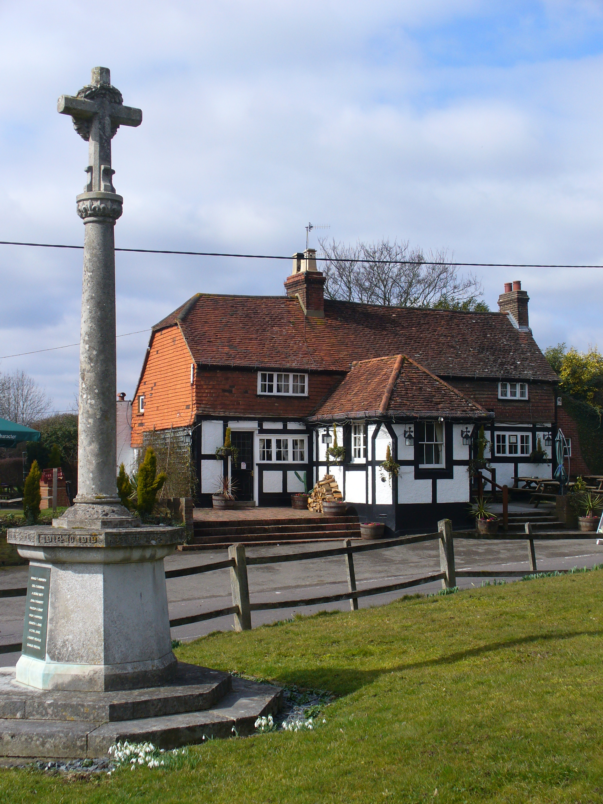 Newdigate War Memorial Outside St Peter, the parish church - with the Six Bells pub across the street. The pub takes its name from the six bells in the church.